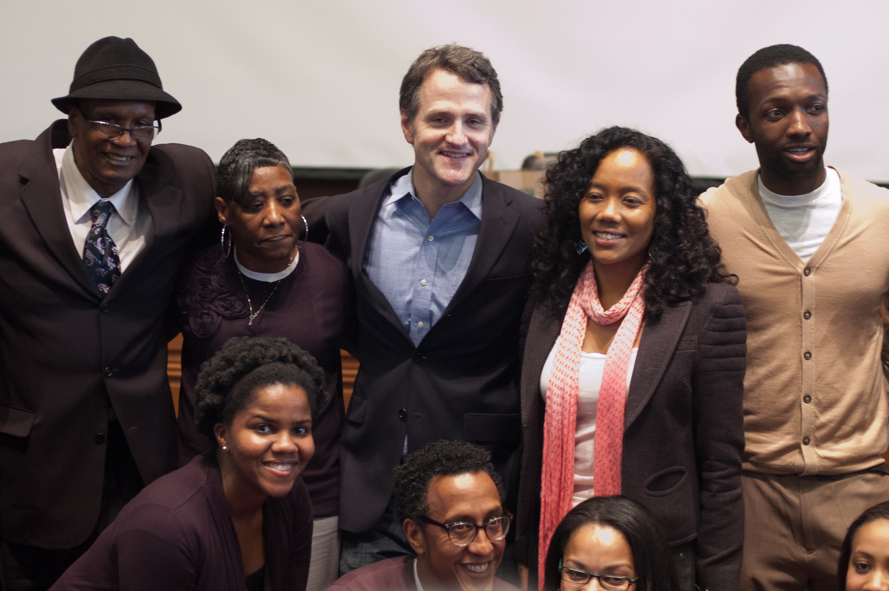 From the April 12, 2010 presentation on "The Wire" at Charles Ogletree's seminar at Harvard University Law School. Top, from left: Donnie Andrews (the inspiration for "Omar Little"), Fran Boyd, Jim True-Frost, Sonja Sohn, Jamie Hector. At bottom center: Andre Royo.